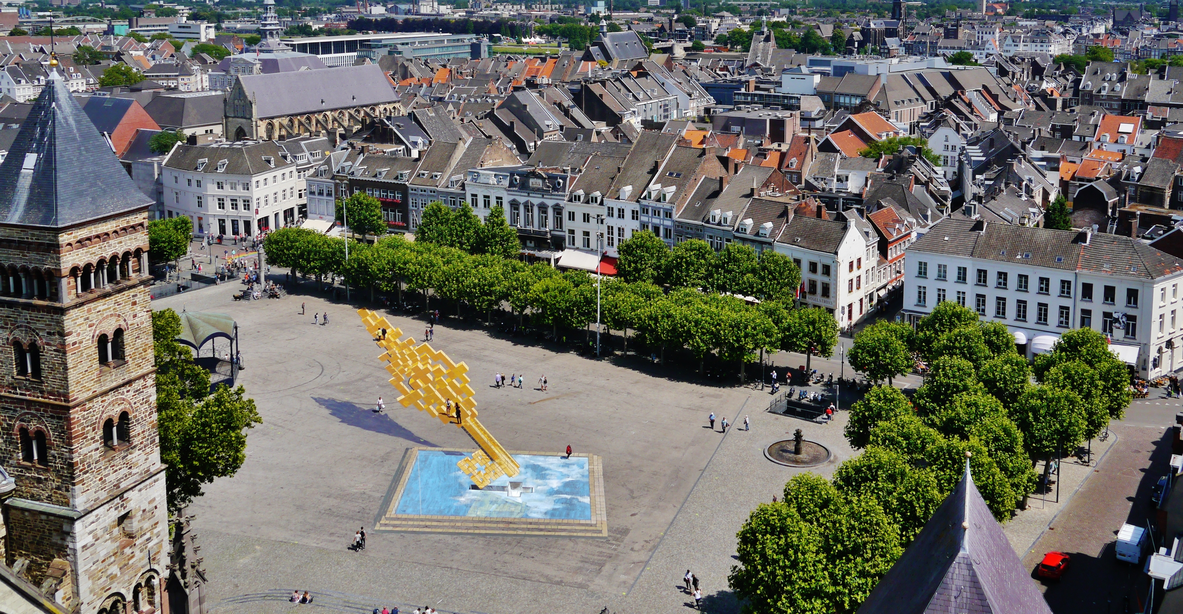 View from the Tower of John's Church to the Vrijthof, Maastricht, Province of Limburg, Netherlands